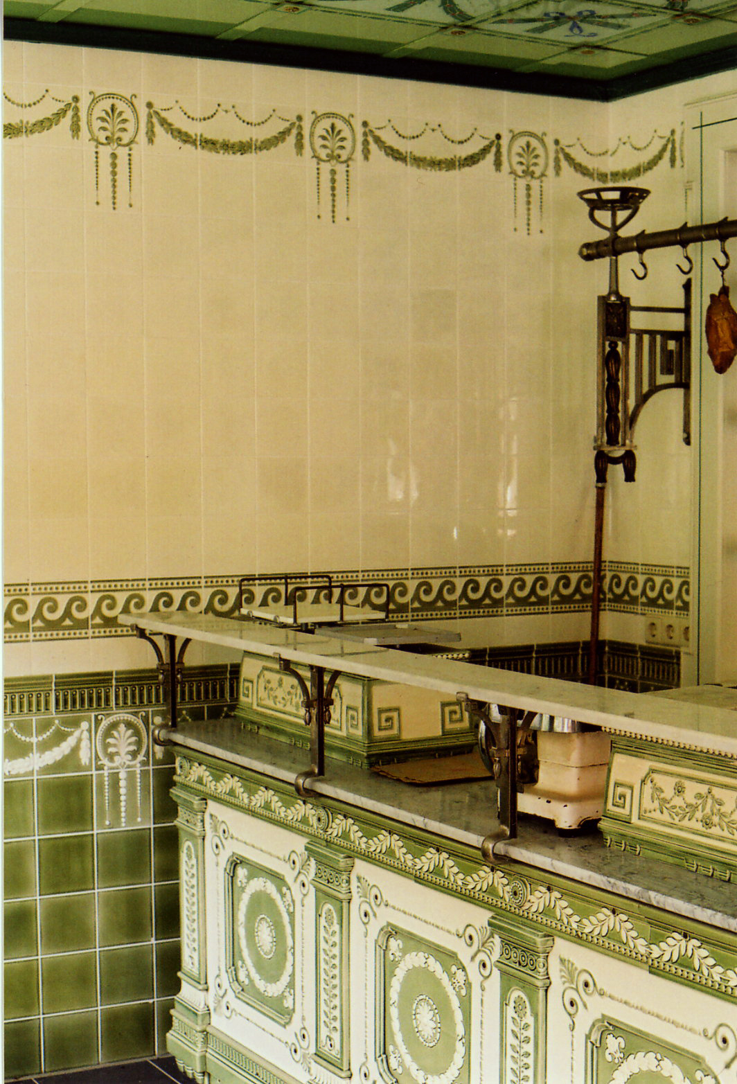 Old Butcher house, Villeroy & Boch stoneware in Bad Sobernheim, open air Museum, Rhineland-Palatinate, Germany.